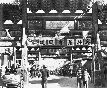 Qingyuan Street in Datong City